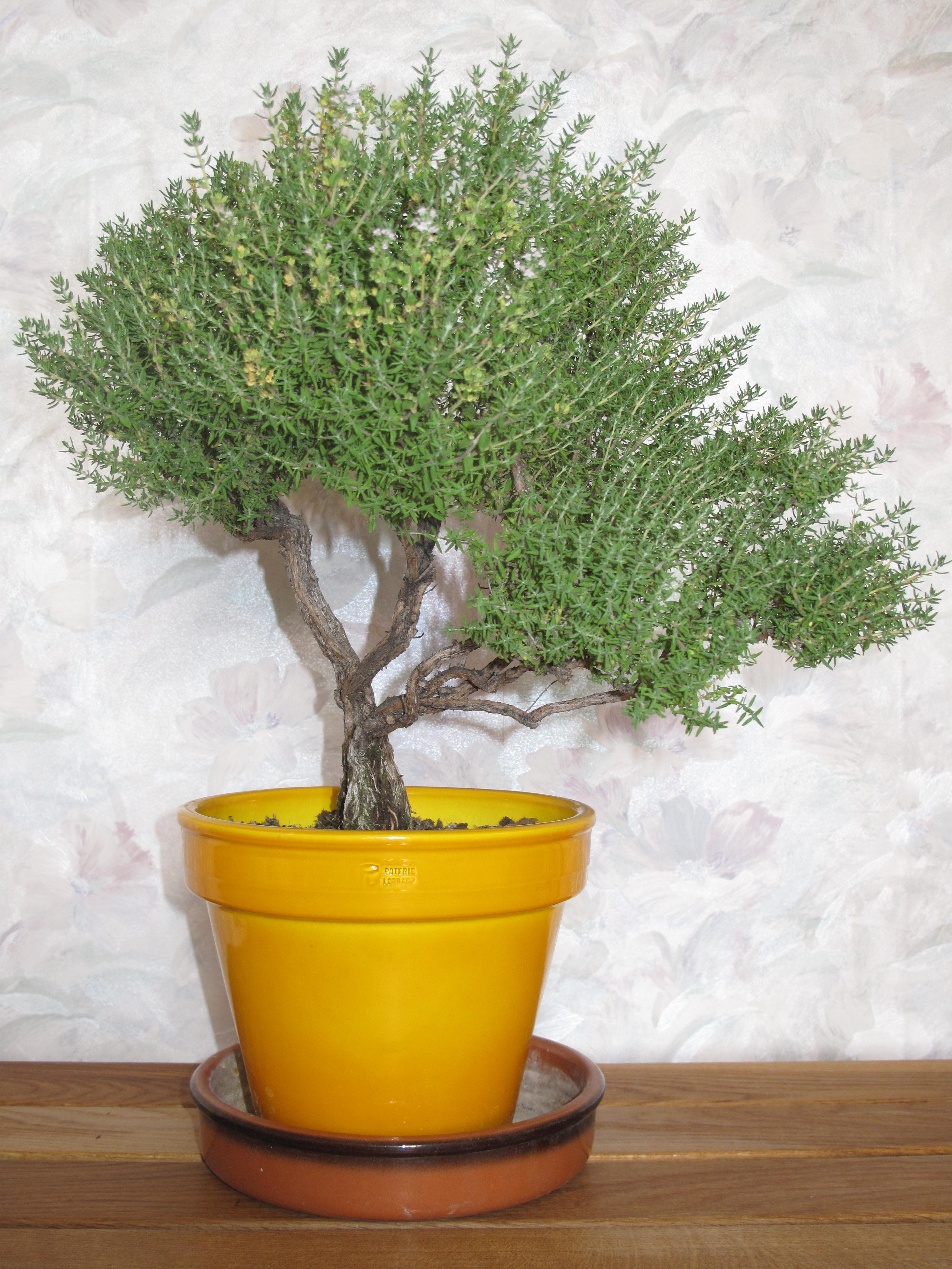 Thyme bonsai. Height : 28 cm. Aged 15 years app. Young plant bought 12 years ago.